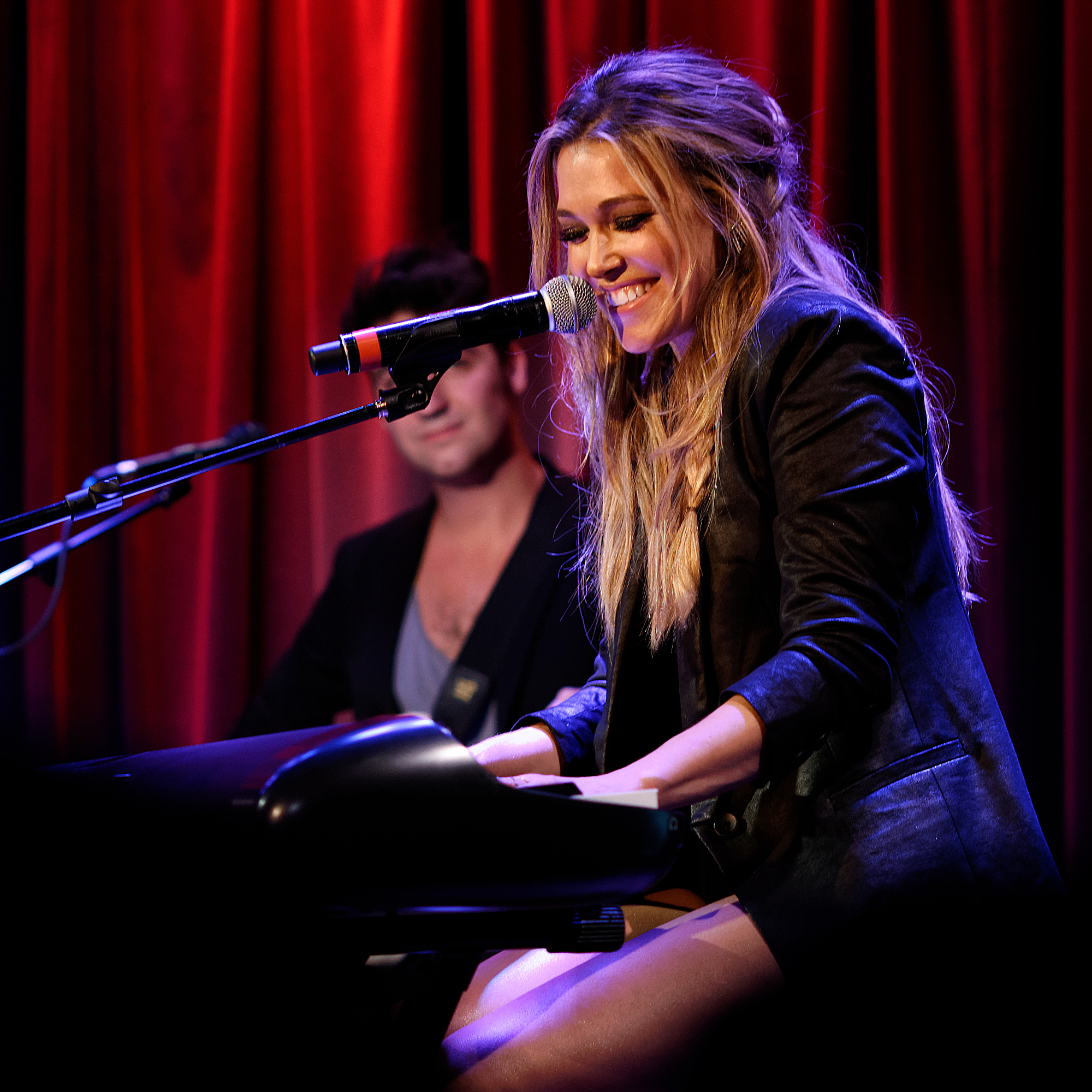 Rachel Platten interview and performance live at The Grammy Museum in downtown Los Angeles California on Monday May 9th, 2016.